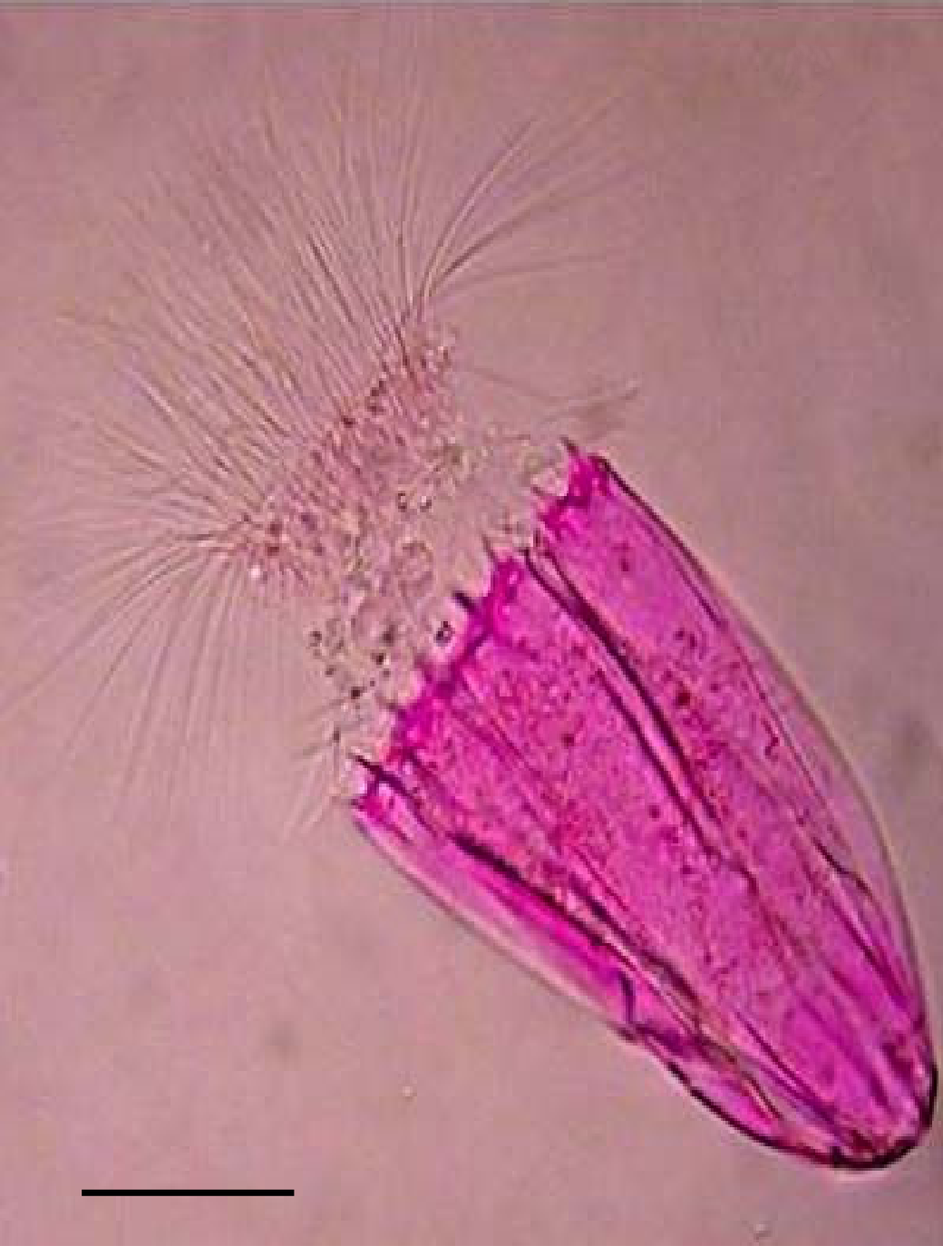 Light microscopy image of the undescribed species of Spinoloricus (Loricifera; stained with Rose Bengal). Scale bar is 50 μm.